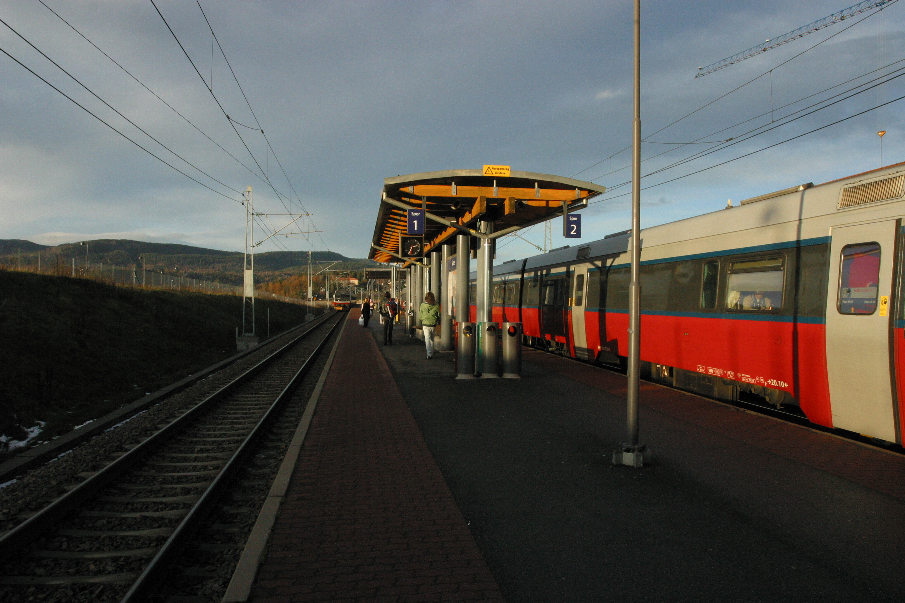 Picture of Sande Railway Station (Norway)